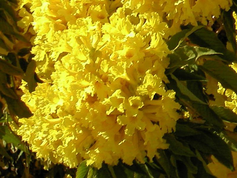 Tabebuia chrysantha, or araguaney, flowers in detail